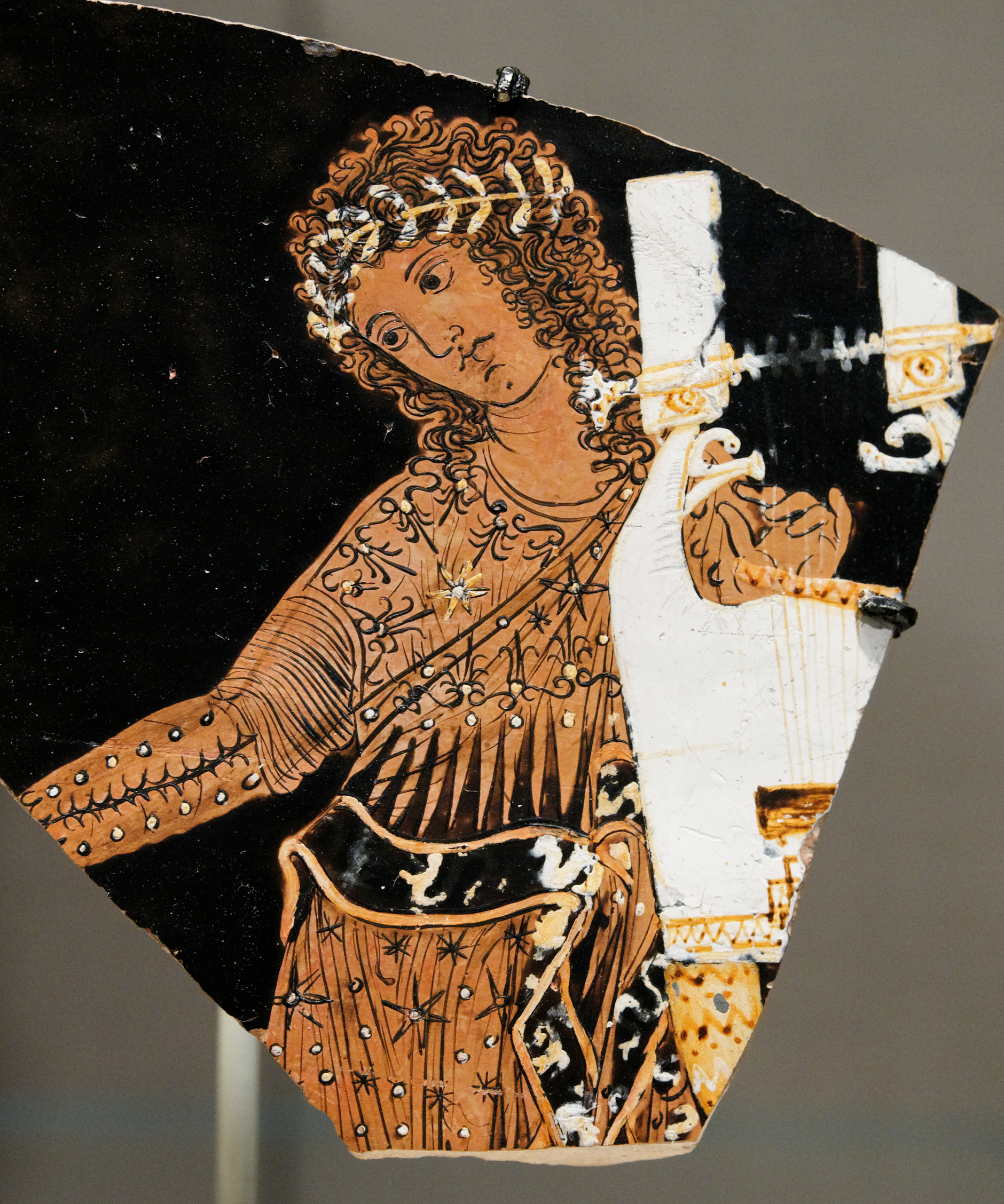 Apollo holding a kithara. Fragment from a Apulian red-figure calyx-krater.